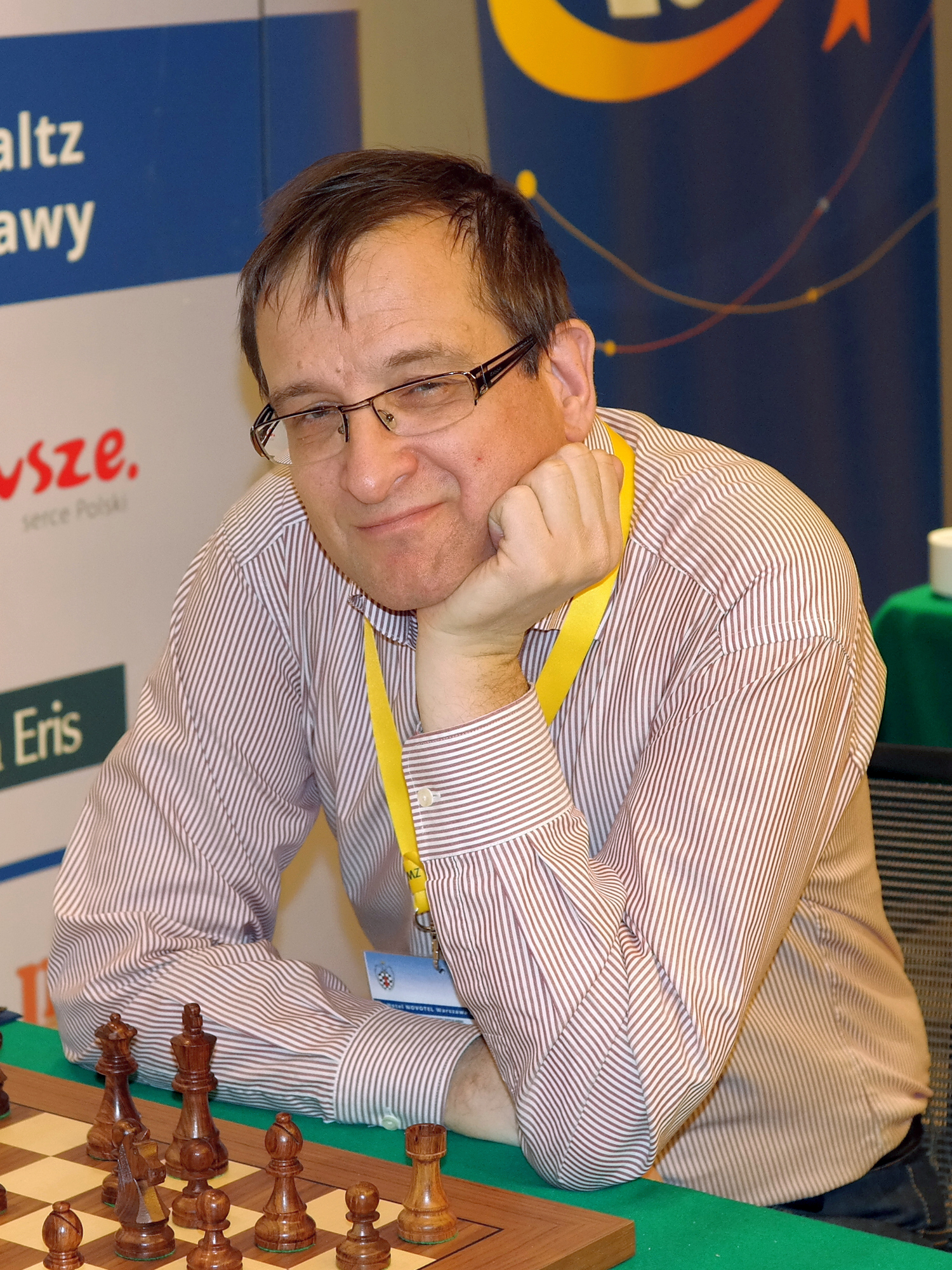 GM Michał Krasenkow, Polish Chess Championship, Warsaw 2014